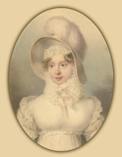 Великая княгиня Мария Павловна (1786-1859), герцогиня Саксен-Веймар-Айзенахтская. 1816 г Grand Duchess Maria Pavlovna, Grand Duchess of Saxe-Weimar-Eisenach (1786-1859), in white dress with frilled sleeves, a frill at her waist, large frilled collar and bonnet, a white hat with feathers on her fair hair signed and dated 'Benner 1816' (mid-right) on paper stretched on enamelled tin oval, 5¼ in. (134 mm.) high, gilt-metal stamped mount in giltwood panel